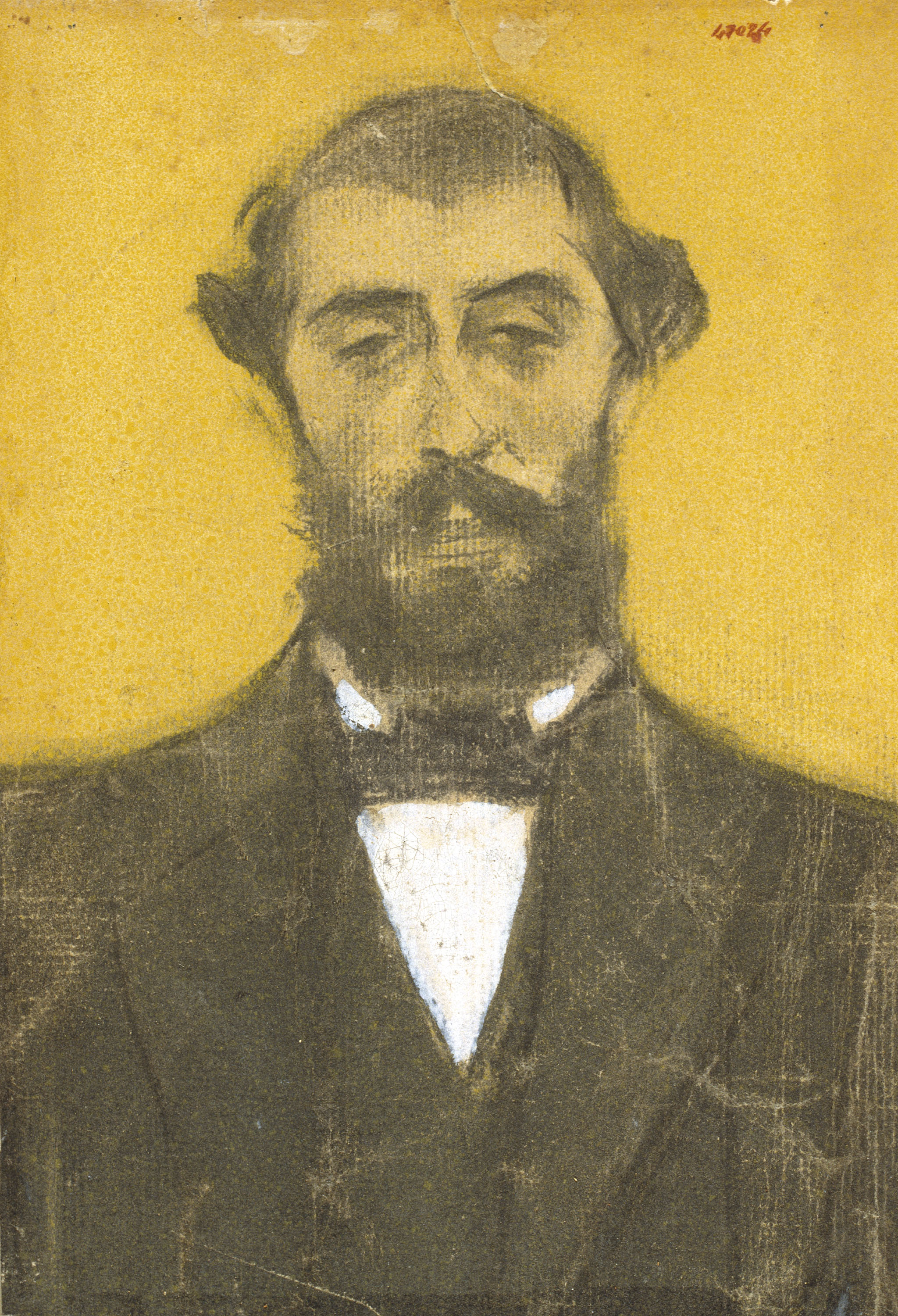 Portrait by Ramon Casas conserved at MNAC in Barcelona. Imagen 144